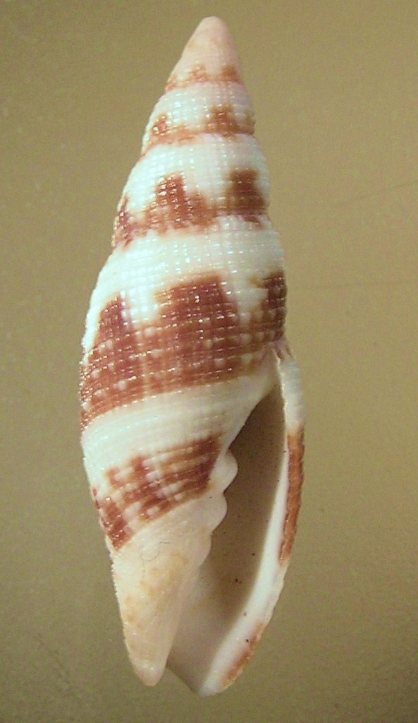 Neocancilla clathrus (Gmelin, 1791), a miter snail from the family Mitridae; Japan Category:Mitridae